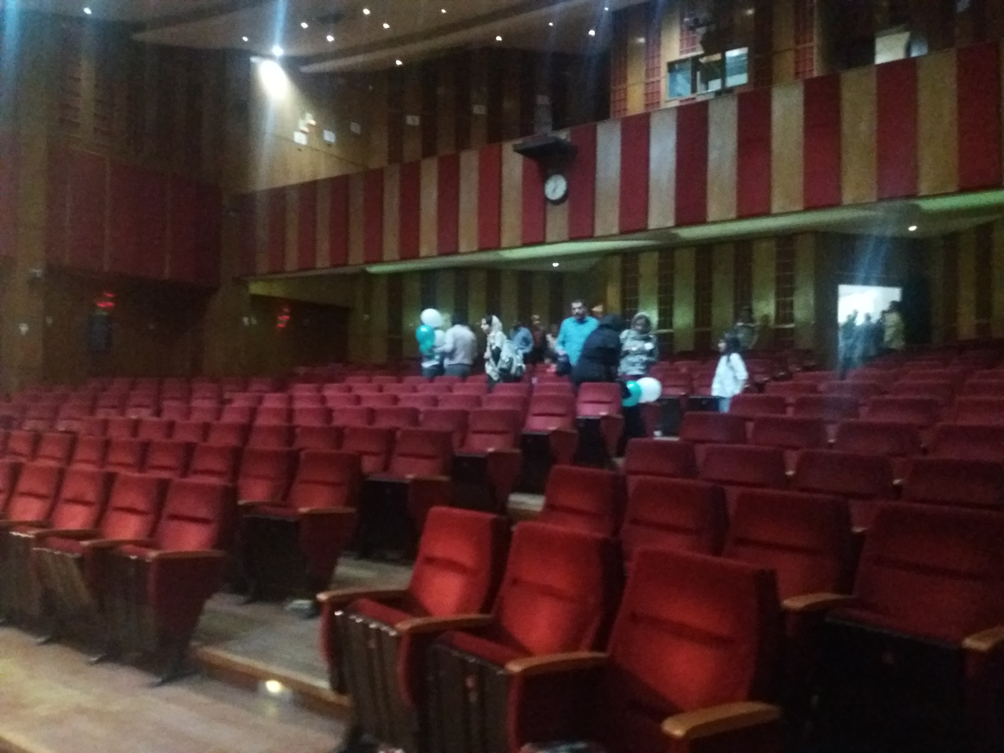 Cinema Saveh - 2017